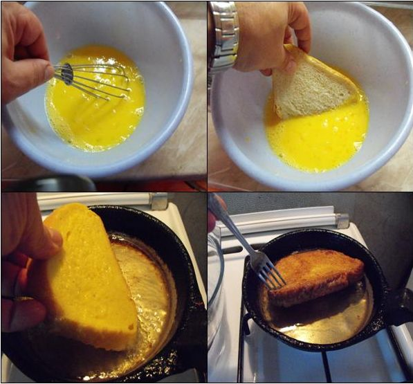 French toast making